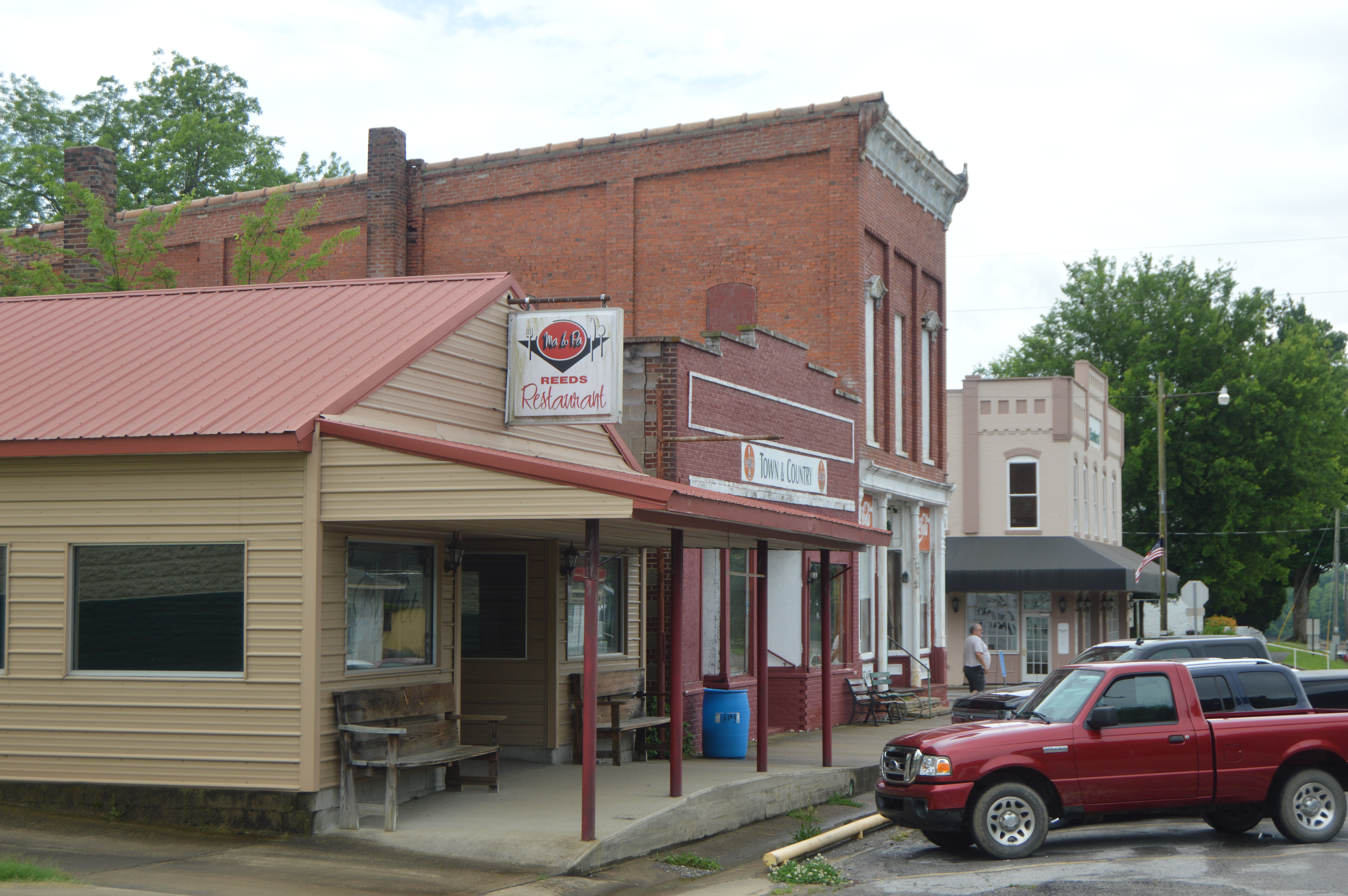 Buildings on the eastern side of Main Street, just south of the courthouse, in central Elizabethtown, Illinois, United States.